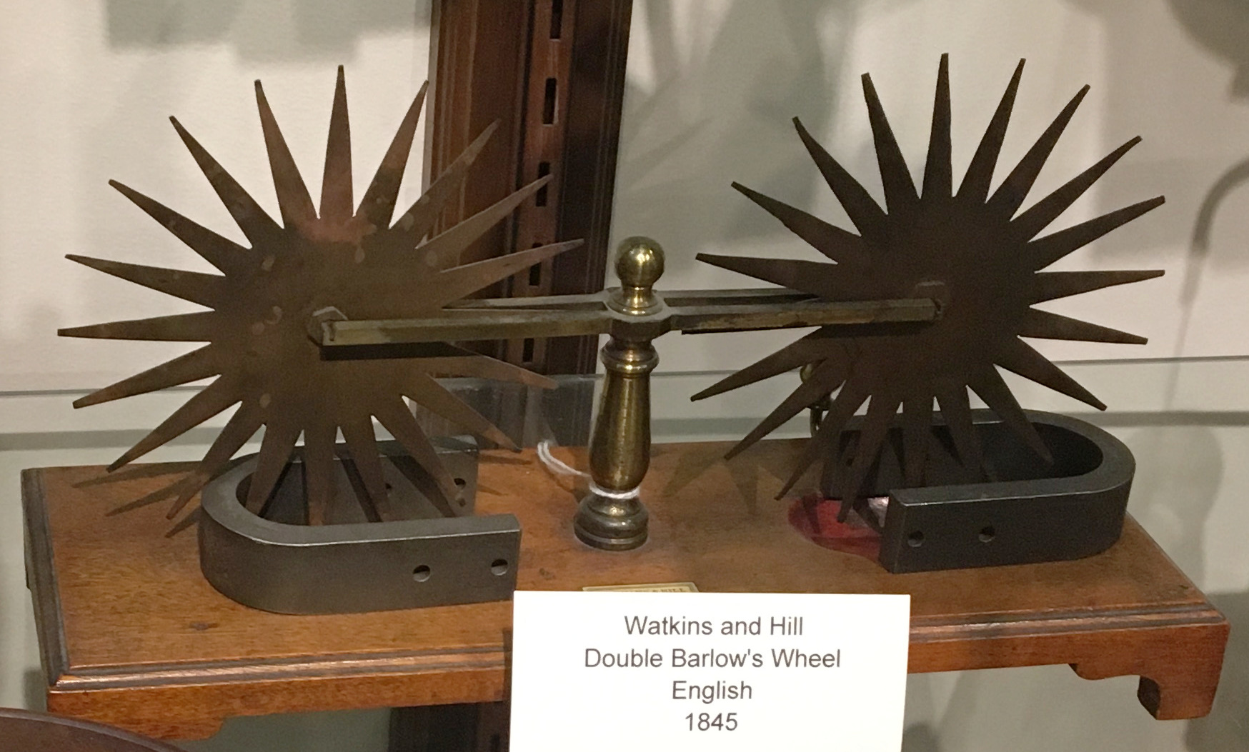 A Barlow wheel, an early experiment demonstrating the principle of a homopolar electric motor, invented by English mathematician Peter Barlow in 1822. This model consisting of two wheels in series was produced by the scientific instrument maker Watkins and Hill in 1845, for demonstrations in physics education classes, and is now on display at The Spark Museum, Bellingham, Washington state, USA. The admissions employee of the museum gave oral permission for photography.